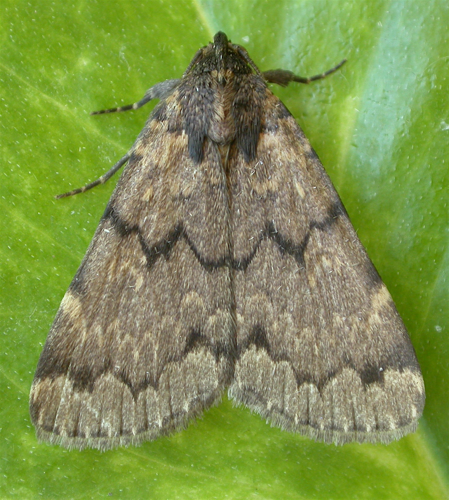 Mormoscopa phricozona (Turner, 1902), Reid, ACT, 26 December 2007